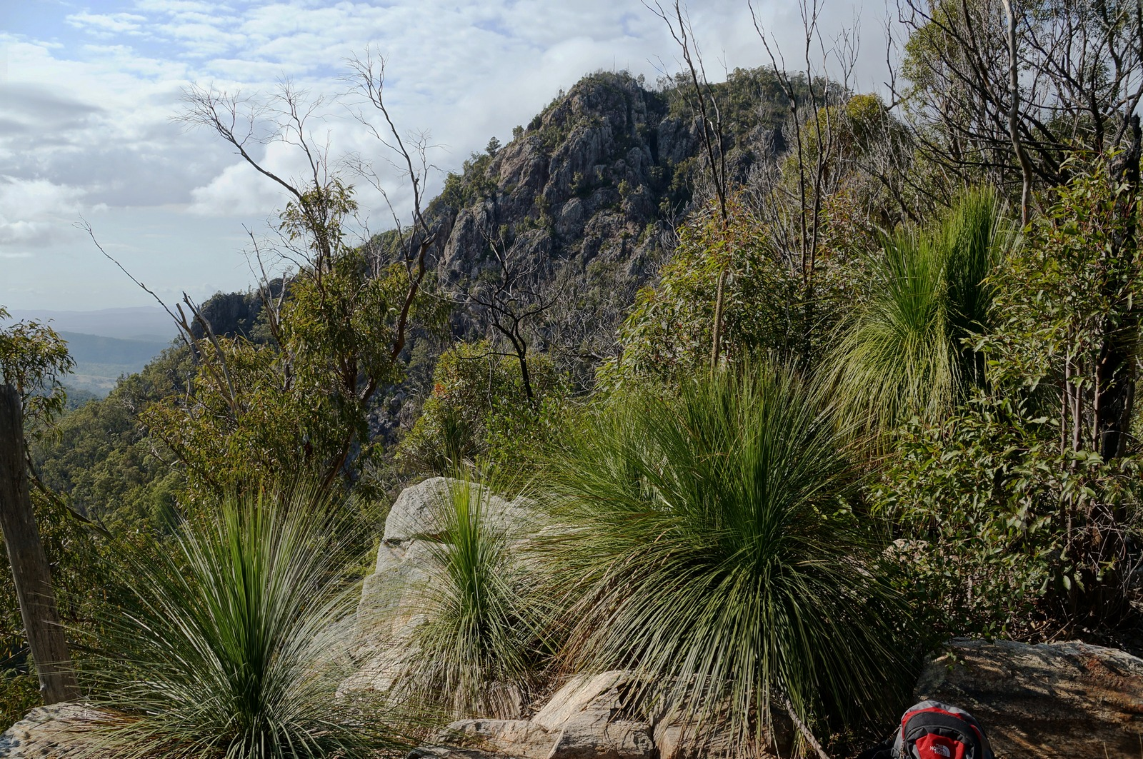 Rocks and grass-tress on the way to Flinders peak. (Flinders Peak conservation park, Australia.) The peak is 679 m above sea level.